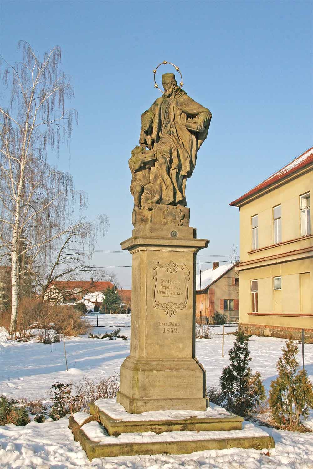 Statue of St John Nepomucene in Kunětice, Pardubice District, Czech Republic